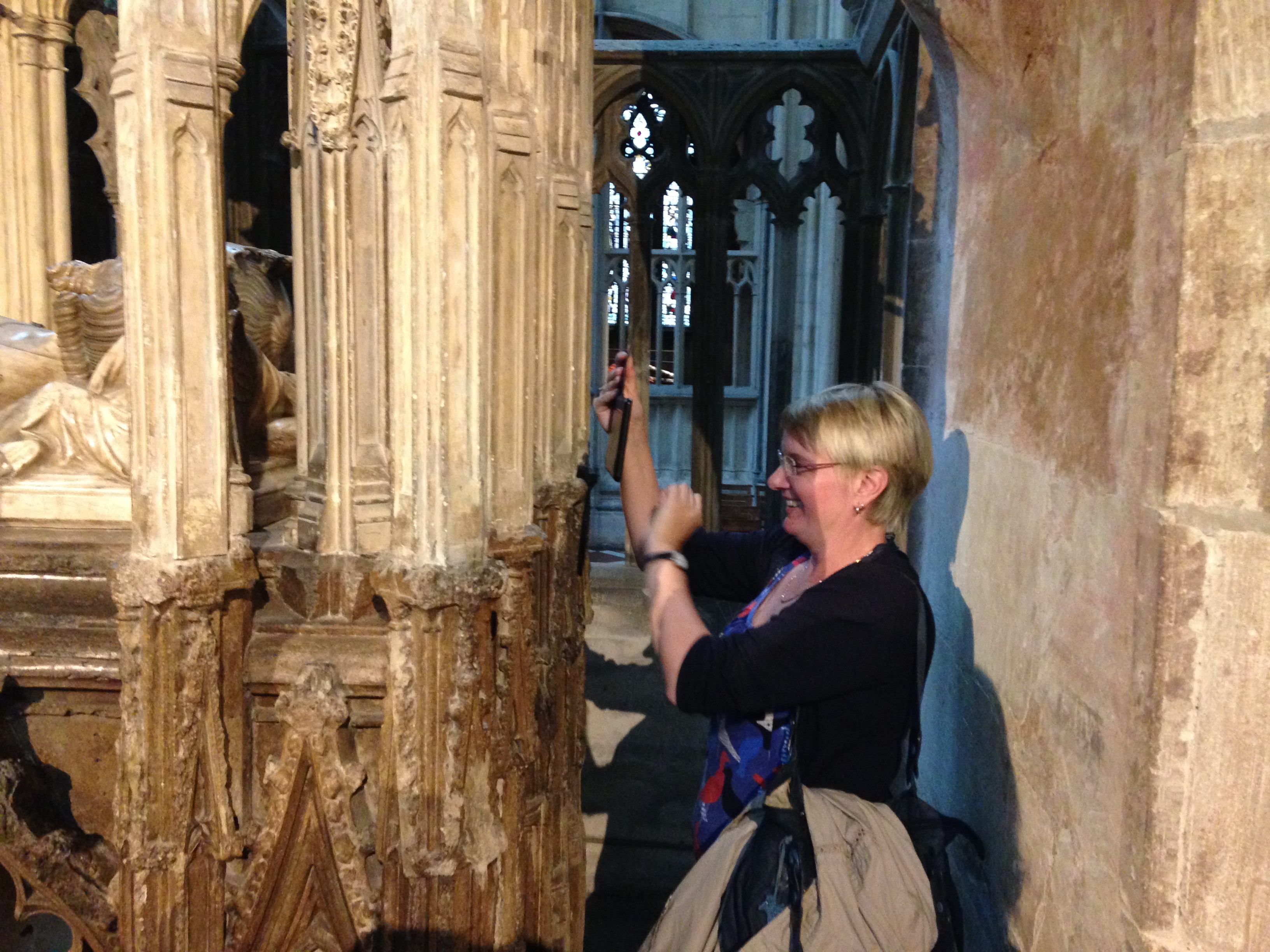 Historical author Kathryn Warner at the tomb of Edward II in Gloucester